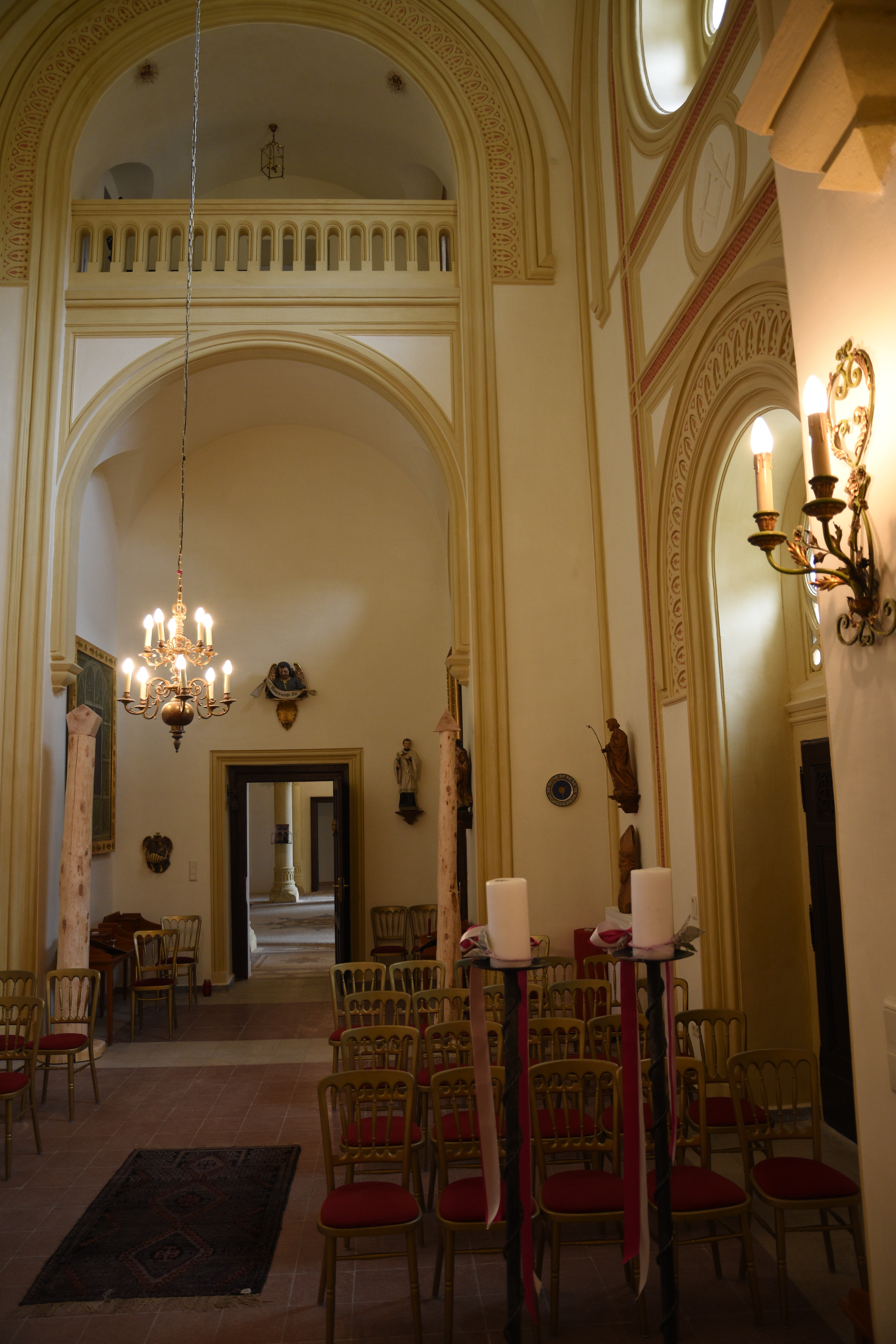 Chapel Castle Rotenturm